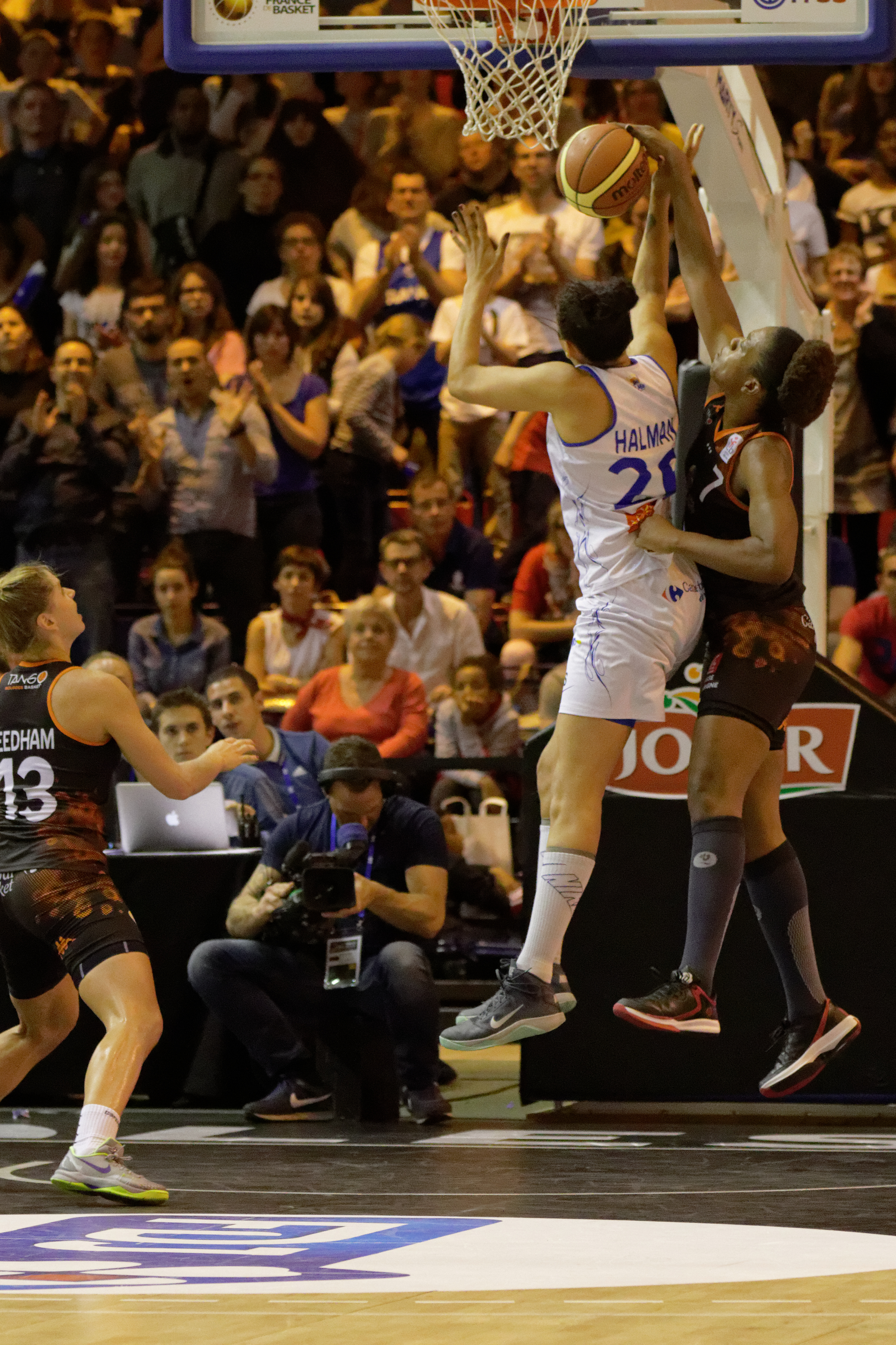 Final of the French Basketball Cup, Lattes-Montpellier vs Bourges, 2nd May 2015.